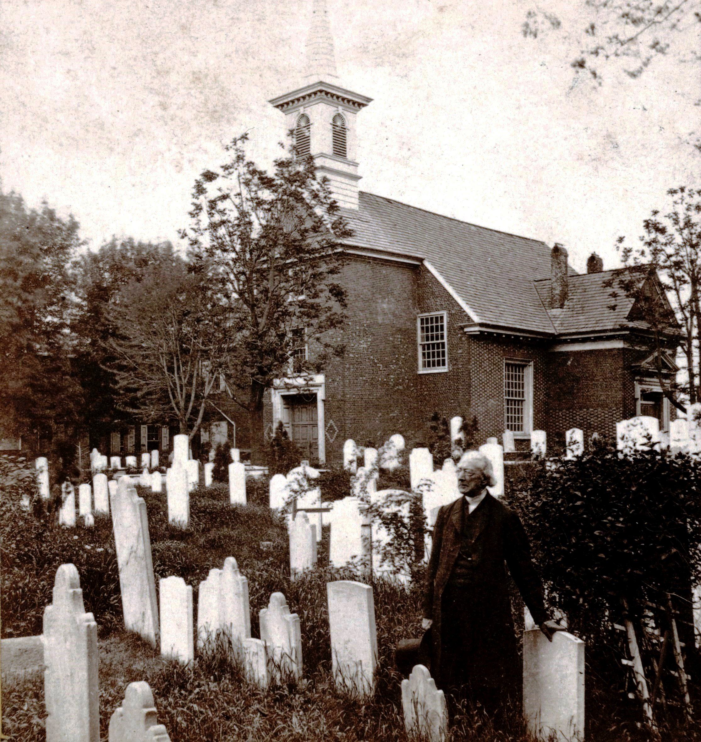 Rev Jehu Curtis Clay in front of Gloria Dei (Old Swede's) Church in Philadelphia, the oldest church in Pennsylvania (1700). Info and file from the Library of Congress which states "no known restrictions" but obviously the creator is dead at least 100 years. From the left side of a stereograph